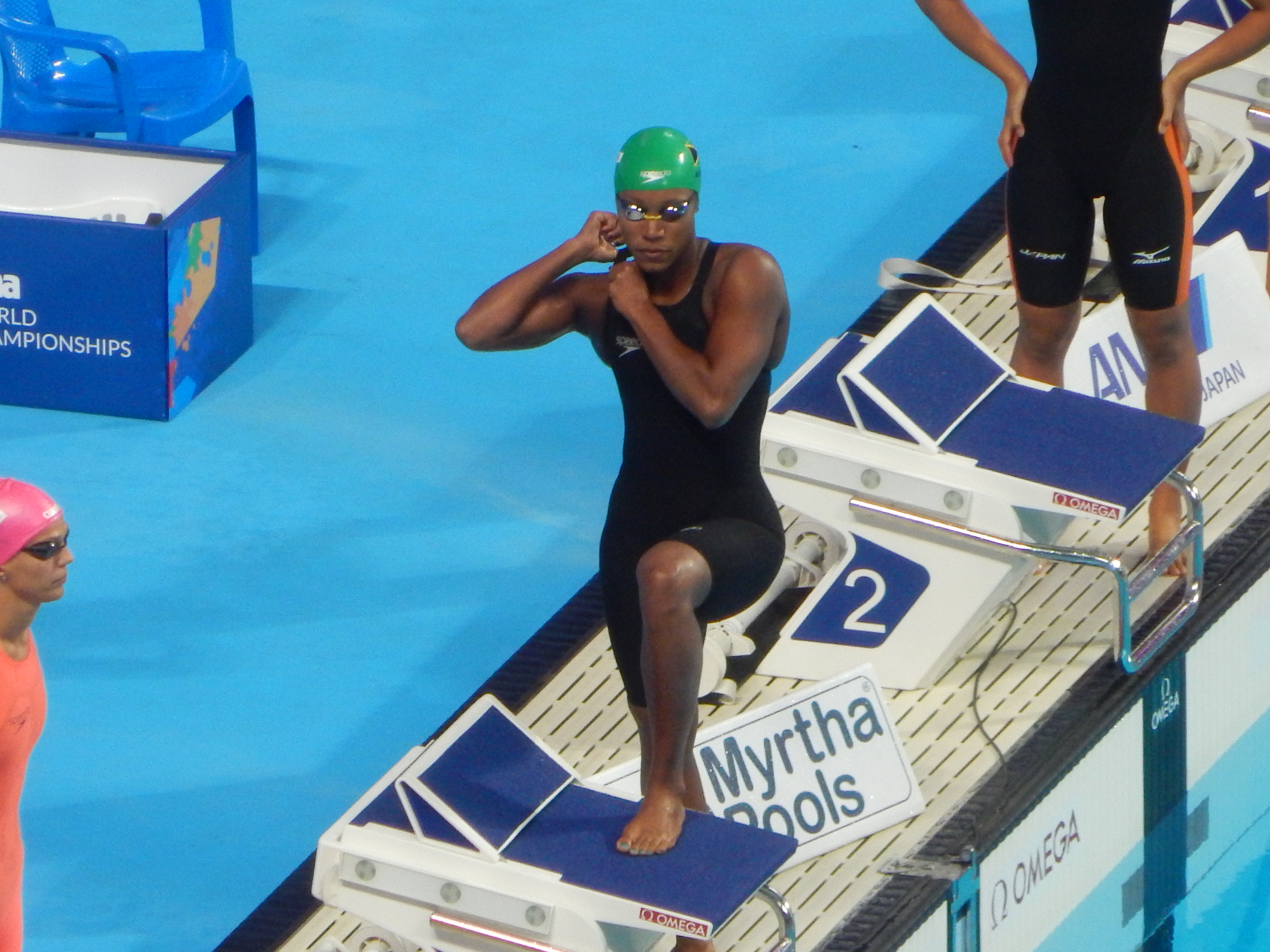 Alia Atkinson before 100m breast final in Kazan 2015